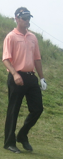 Andrew Coltart during the third round of the 2007 KLM Open.